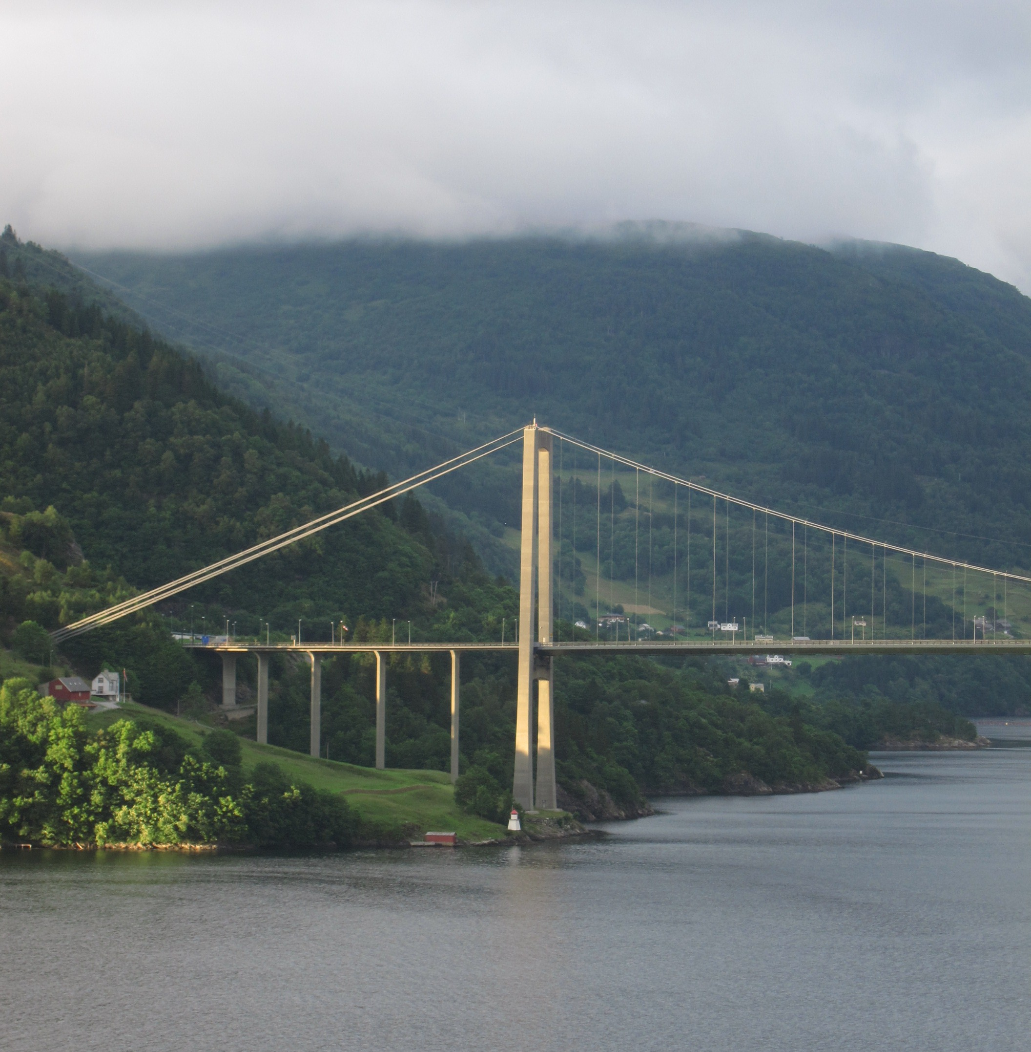 Osterøybrua bridge, Osterøy, Sørfjorden i Midthordaland